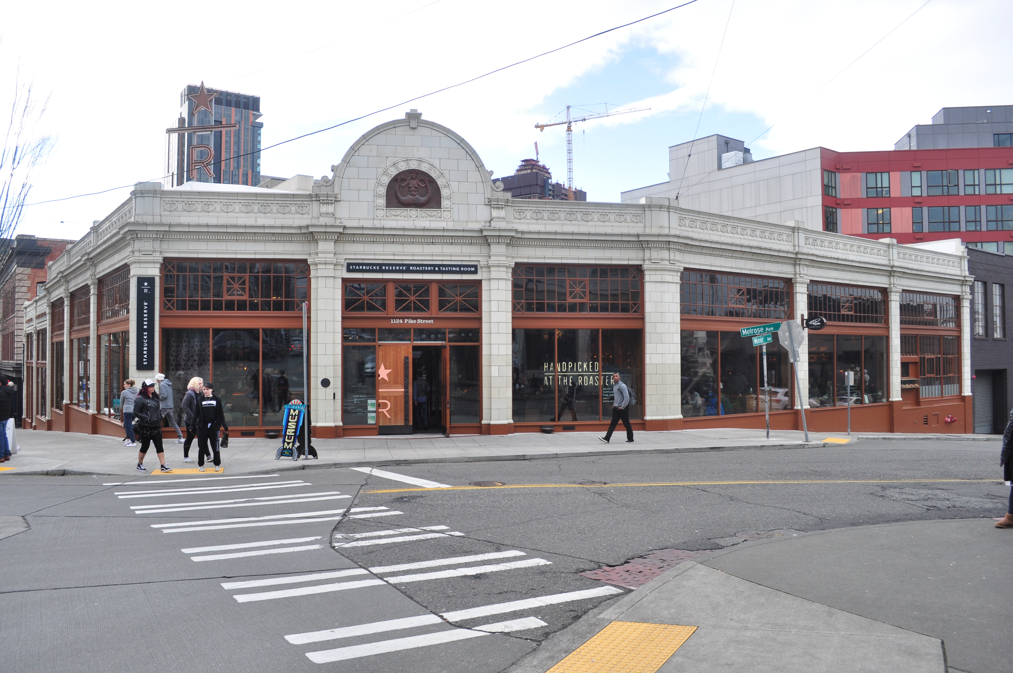 Starbucks Reserve Roastery and Tasting Room, 1124 Pike Street, Capitol Hill, Seattle, Washington, U.S.